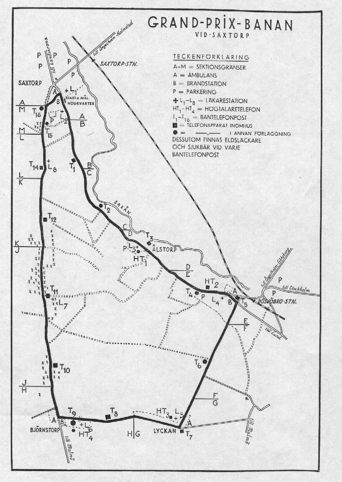 Map over Swedish GP, Saxtorp 1930-1939